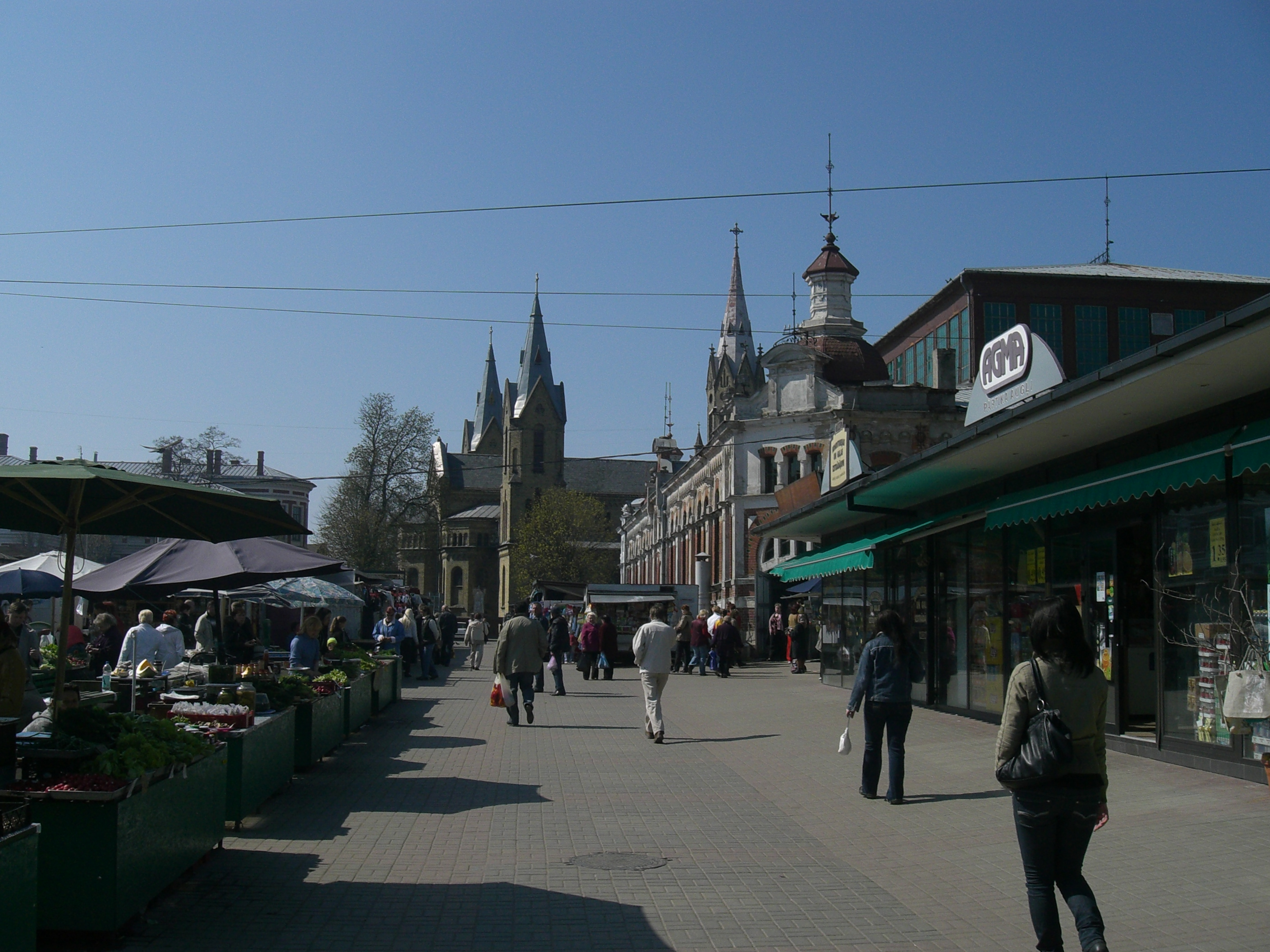 Liepāja town, Latvia. Market